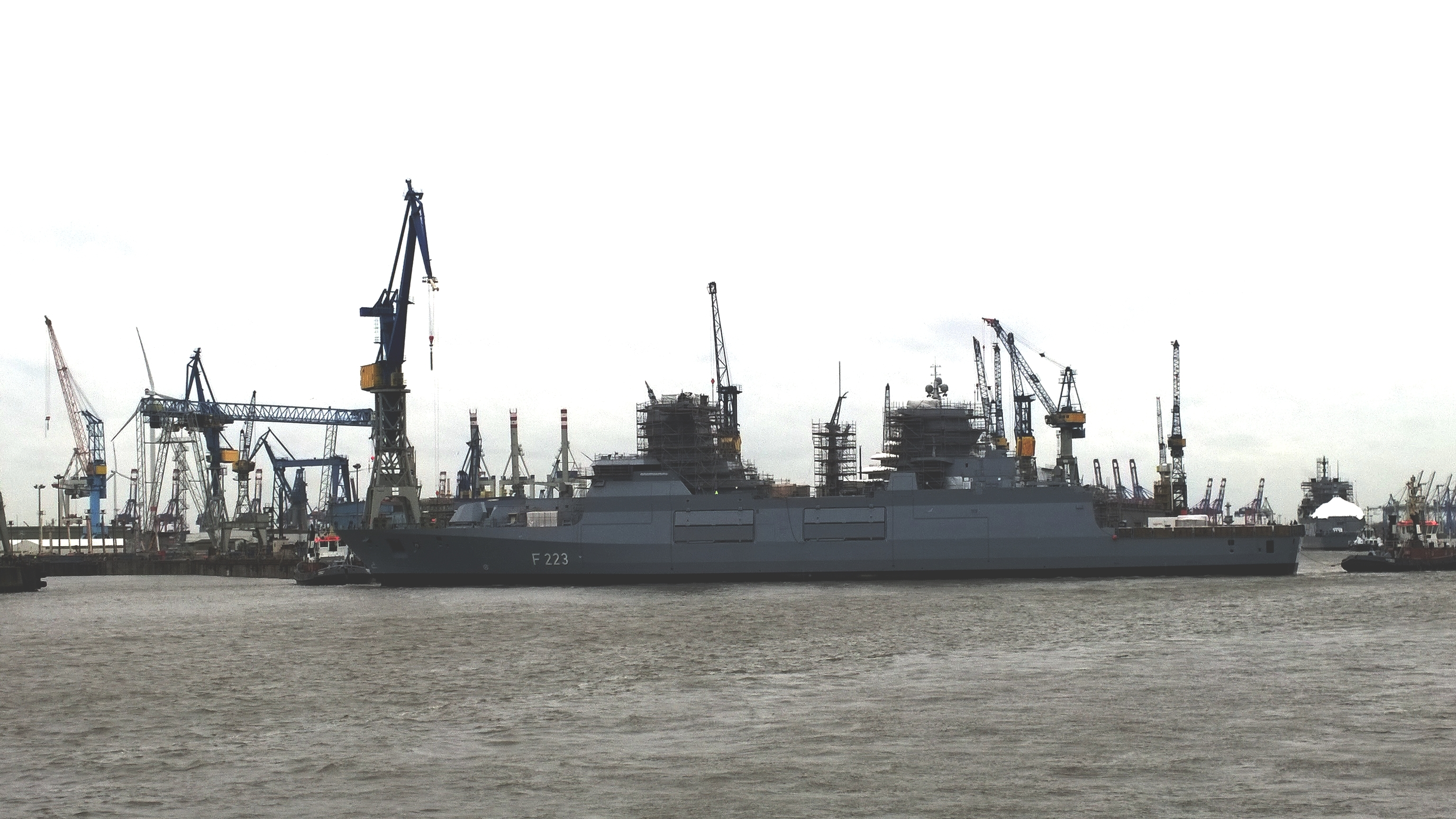 The frigate Nordrhein-Westfalen F223 is towed into dock 17 of the Blohm and Voss (B&V) shipyard